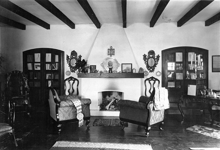 A room of the Ricardo Güiraldes' house in San Antonio de Areco.